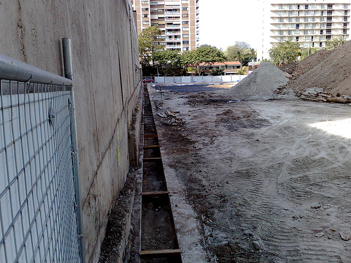 This is a photo of a set of slurry wall guide walls. Taken by myself on 22/07/2007, on the "Vision Brisbane" ( construction site. It should be in article "Slurry wall" (Slurry_wall)